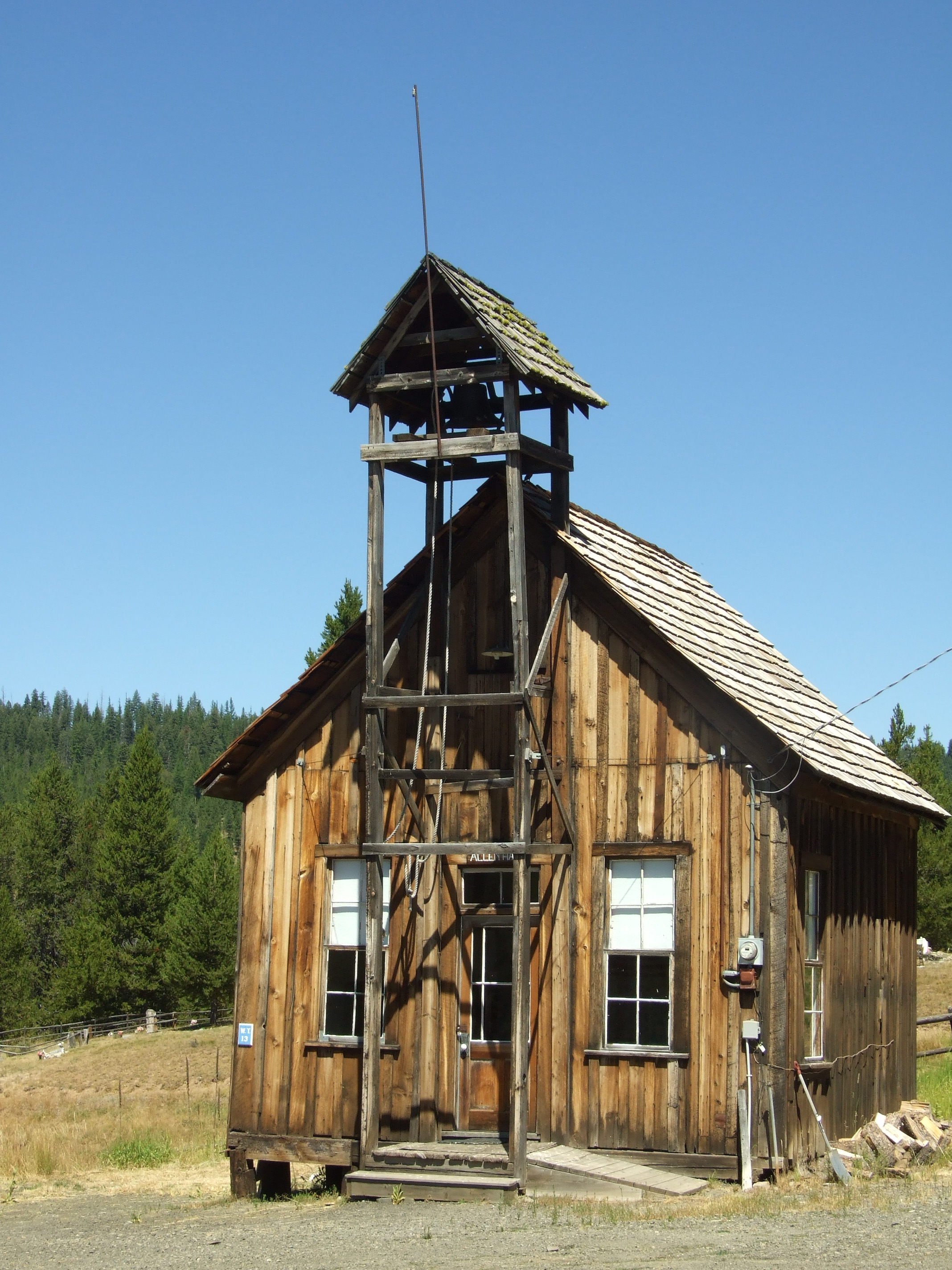 Granite, Oregon (ghost town)